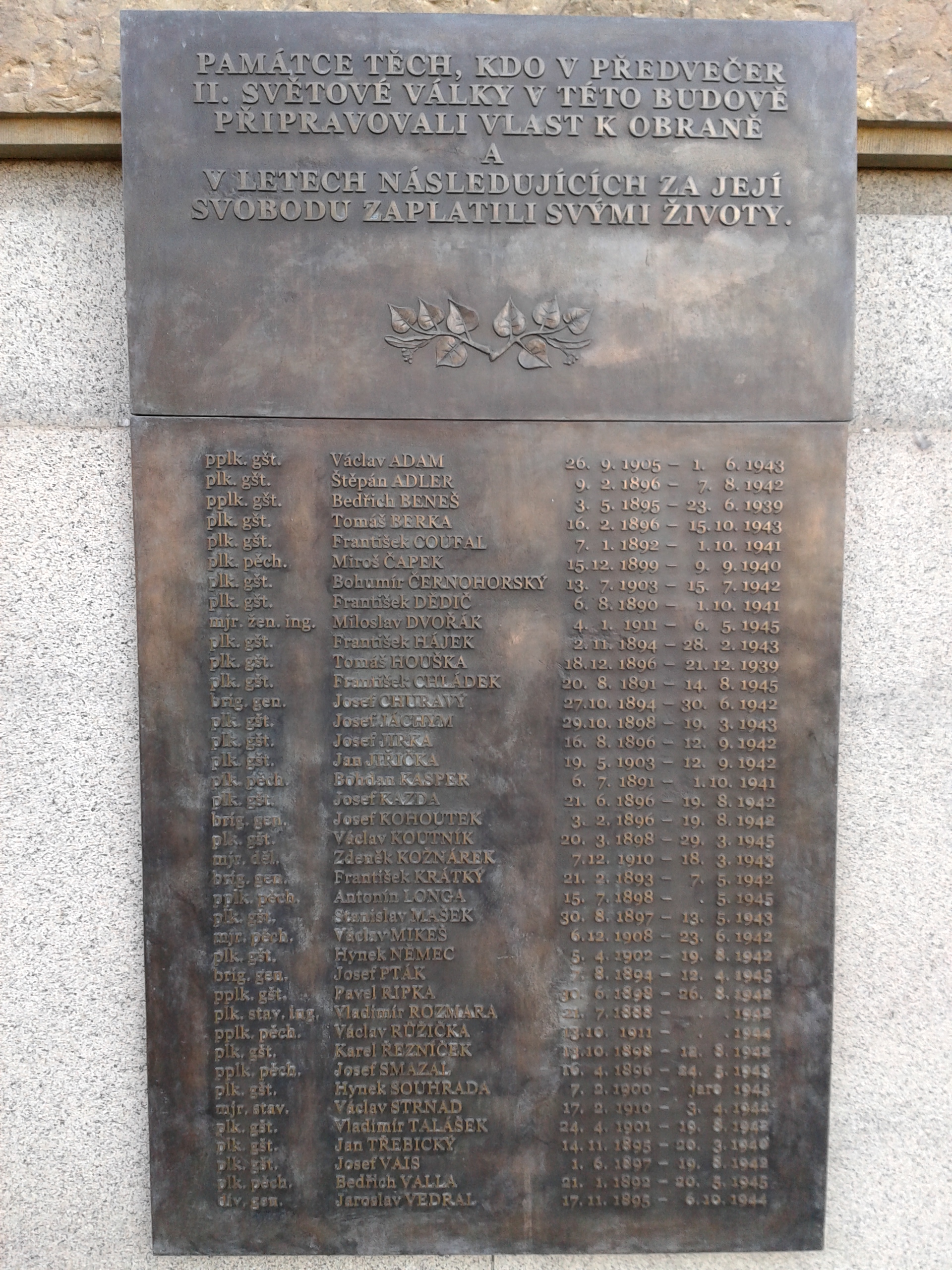 Memorial plaque situated on the right side of the main entrance to the historic building of the General Staff of the Army of the Czech Republic (ACR General Staff), (Victory Square 1500/5, 160 00 Prague 6 - Dejvice).